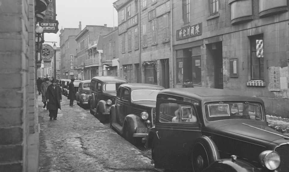 We see cars parked in a street of Chinatown Montreal.